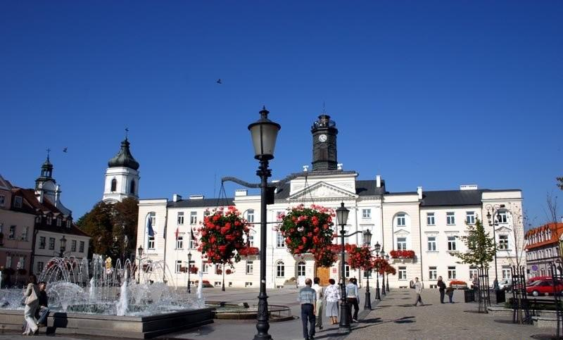 Fountain and Town hall in Płock